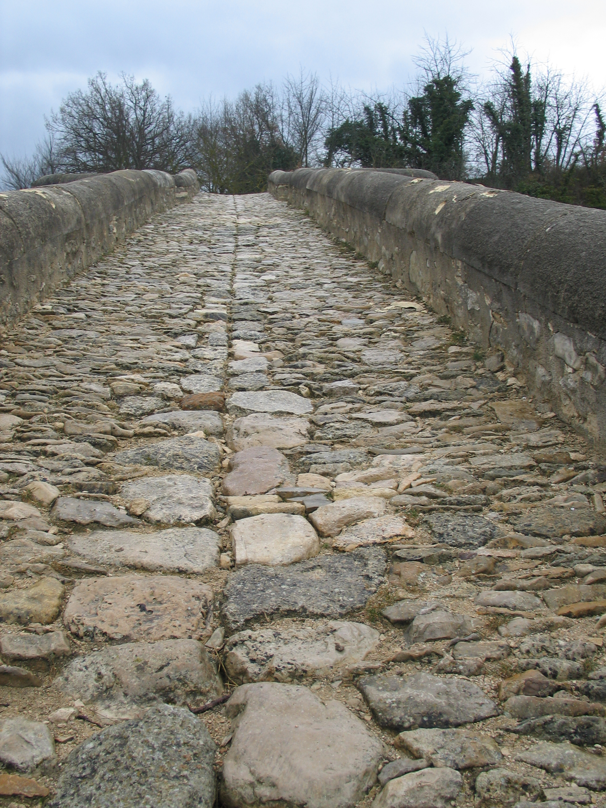 The Pont sur Laye near Mane, Alpes-de-Haute-Provence department, Provence, France